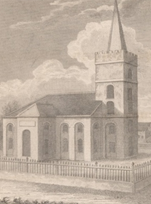 1825 engraving showing St. John's the Baptist Church of Belize, British Honduras. The foundation stone of the church was laid in 1812 and work was completed in 1820. The church was built by slave labour using bricks used as ballast aboard ships. It was first described as an Episcopalian church at its inception but with the arrival of the new rector Dr. Matthew Newport in 1824, it became strictly Anglican. In 1825 and 1845, two kings of the Mosquito Coast were to be crowned in St. John's by the Rev. Newport. British Honduras was constituted as a diocese in 1883 and St. John's became St. John's Cathedral n 1891.( This engraving was published as the frontispiece page of the book The Honduras Society for Promoting Christian Knowledge (1825). The caption reads: "View of St-John’s Church in Belize, Honduras. The First British Episcopalian Church founded in Spanish America".